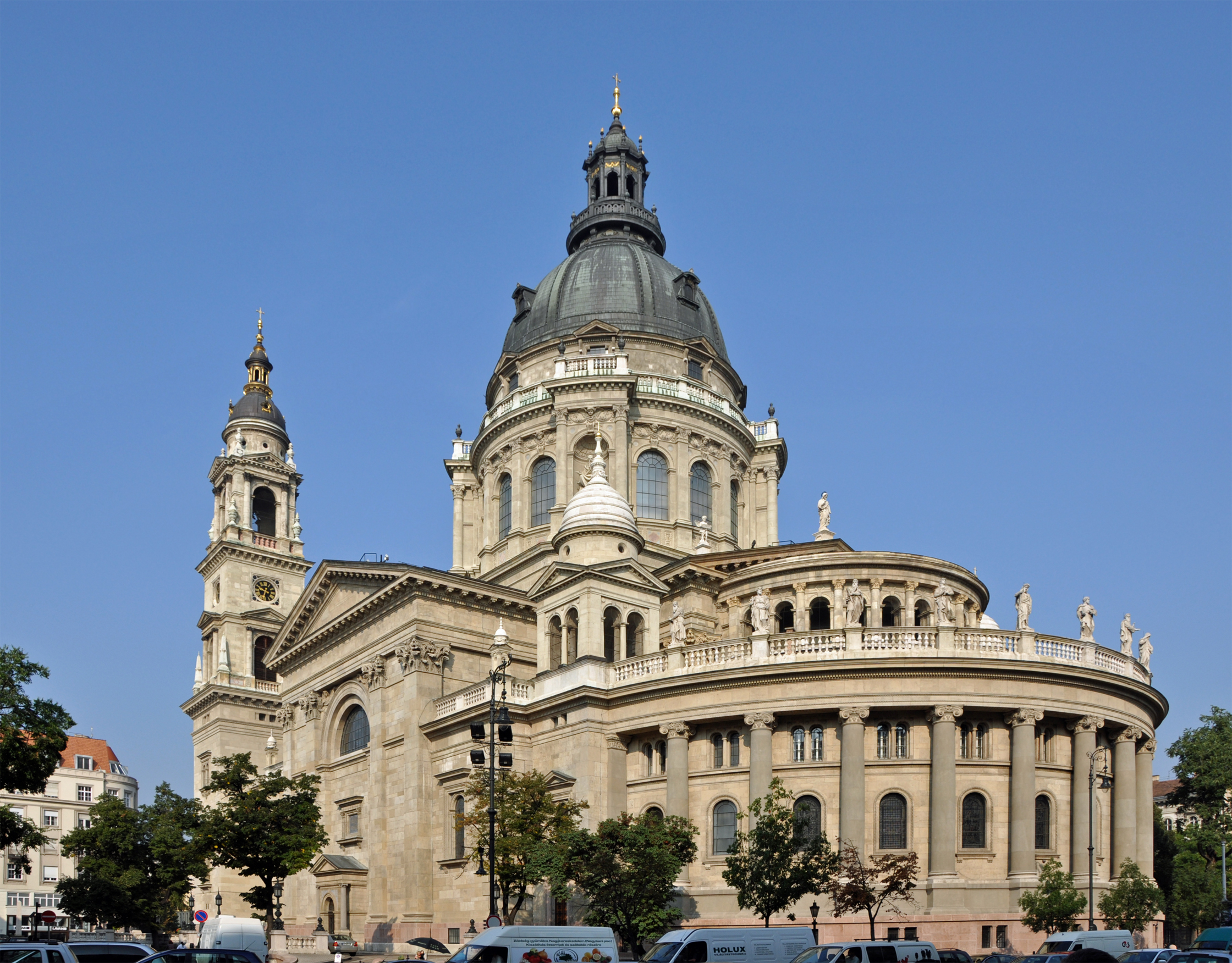 Budapest (Hungary): Saint István Basilica